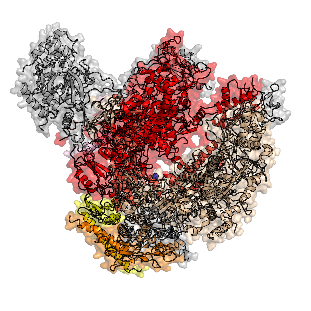 Eukaryotic RNA-polymerase II from Saccharomyces cerevisiae, PDB ID 1WCM [1]. Subunits (homologous to bacterial ones) colored: RPB3 – orange , RPB11 – yellow , RPB2 – wheat, RPB1 (RPO21) – red, RPB6 (RPO26) – pink, the rest 7 subunits are colored gray. Magnesium ion in active cleft is shown blue. Structure is shown as cartoon and surface. Rendered with free Pymol software. Colored subunits are homologous to bacterial ones from image "Bacterial RNA-polymerase structure 1HQM".